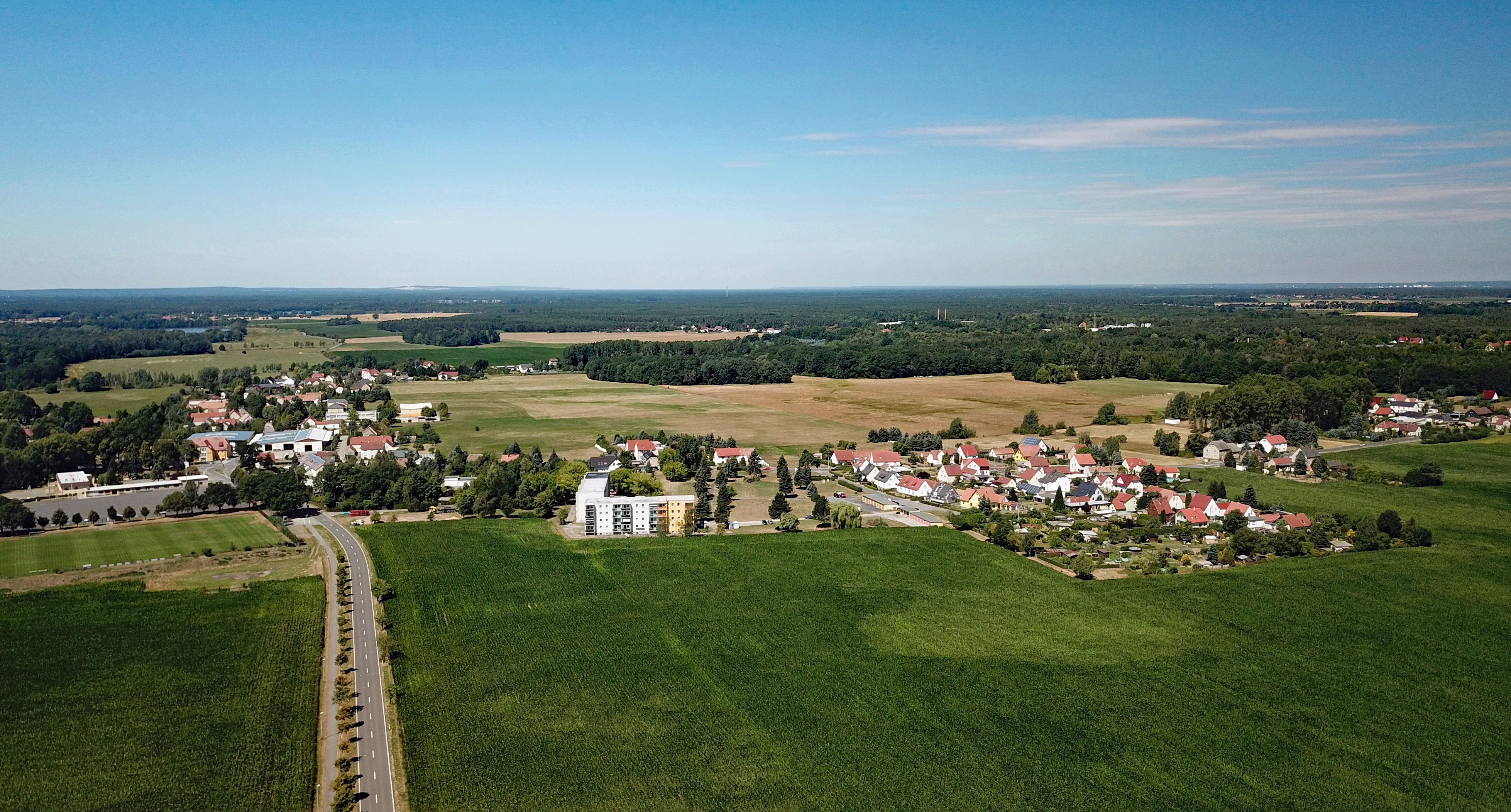 Straßgräbchen (Bernsdorf OL, Saxony, Germany)